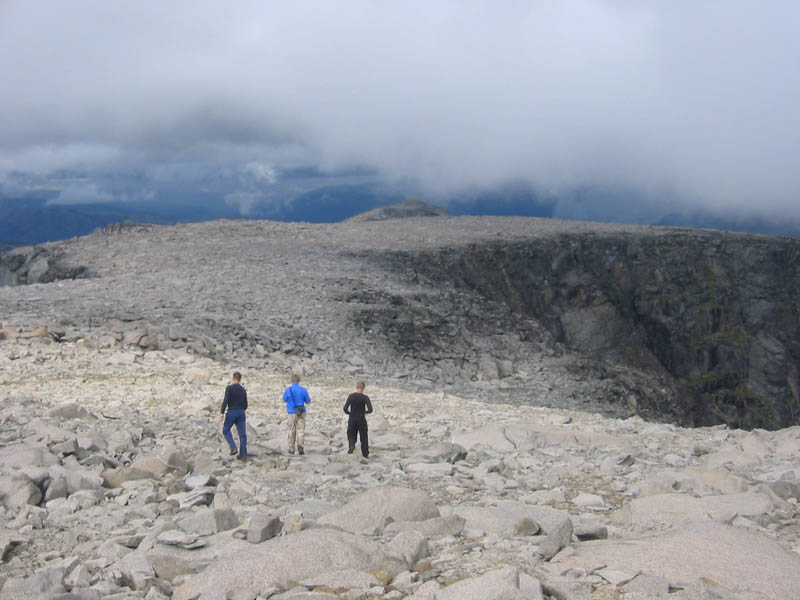 I shot the photo on August 7. 2006. View from Mugna towards the Munken plateau.